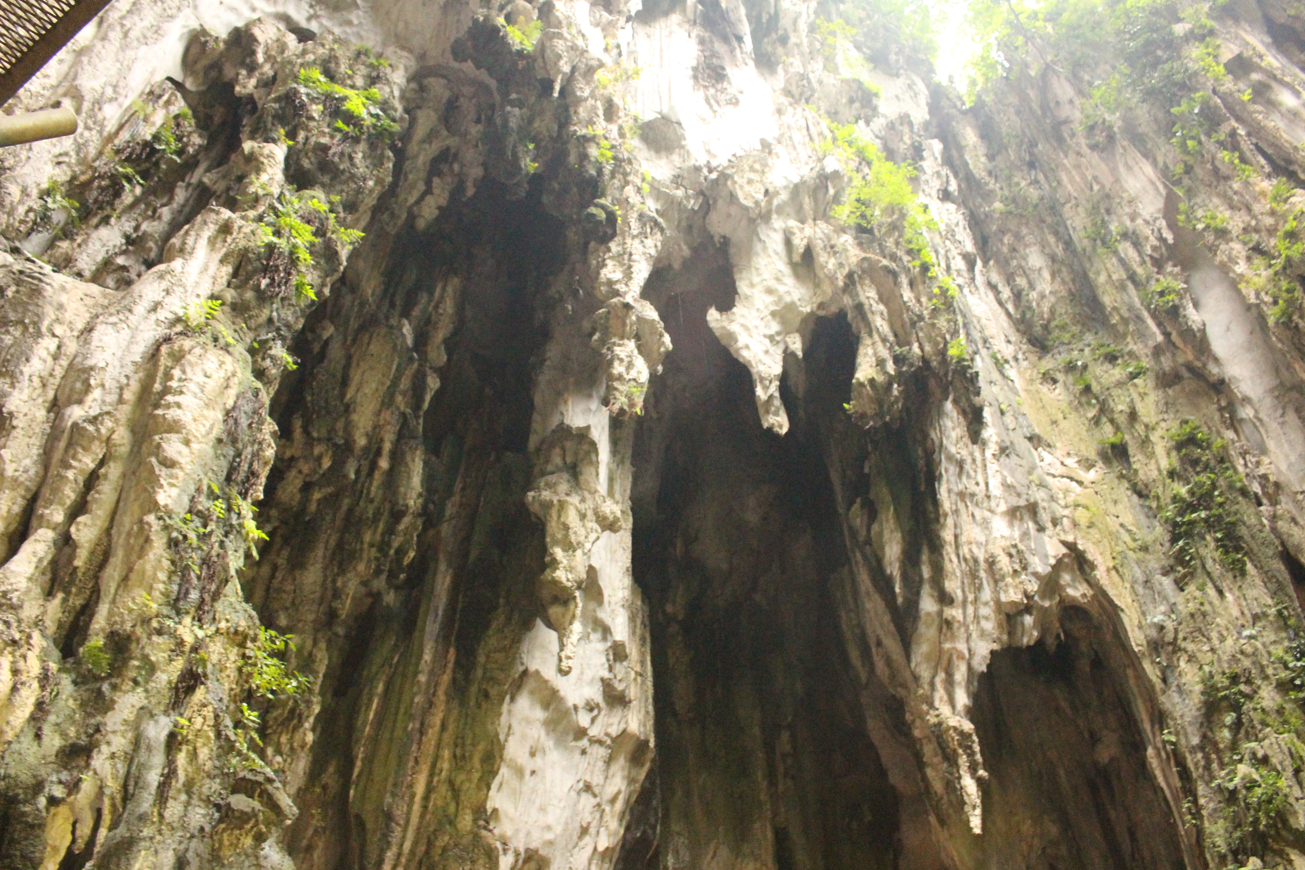 Sunshine on the Rocks